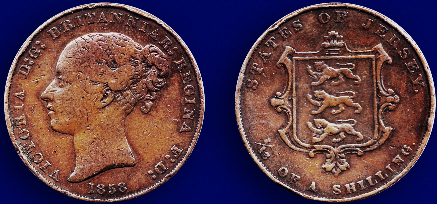 1858 States of Jersey 1/13 of a Shilling (J#6, KM#3, 34.10mm, copper)